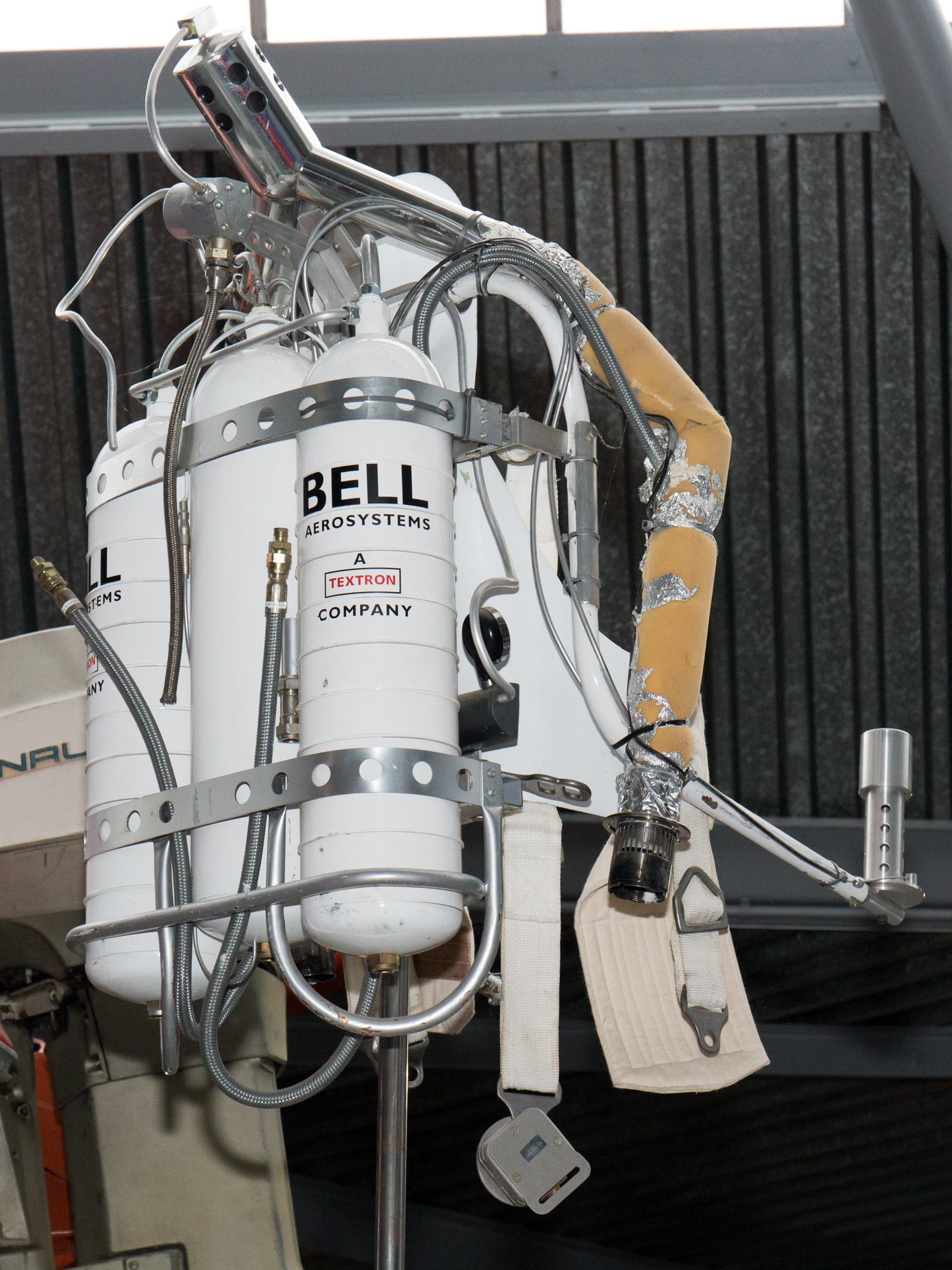 Jet pack, from "Thunderball" (1965)